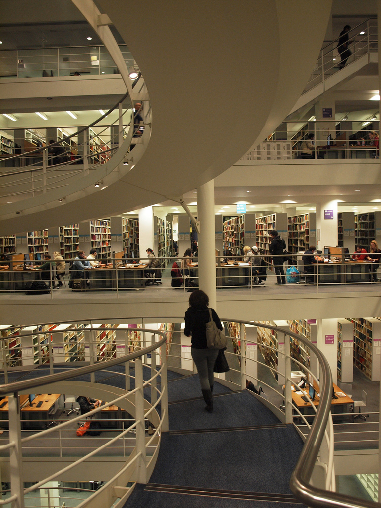 I took this photo of the Norman Foster stairway at LSE when I recently visited an alumni student.